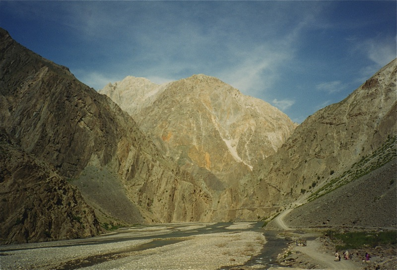 Vast mountains and people in the Chitral Valley of northern Pakistan.